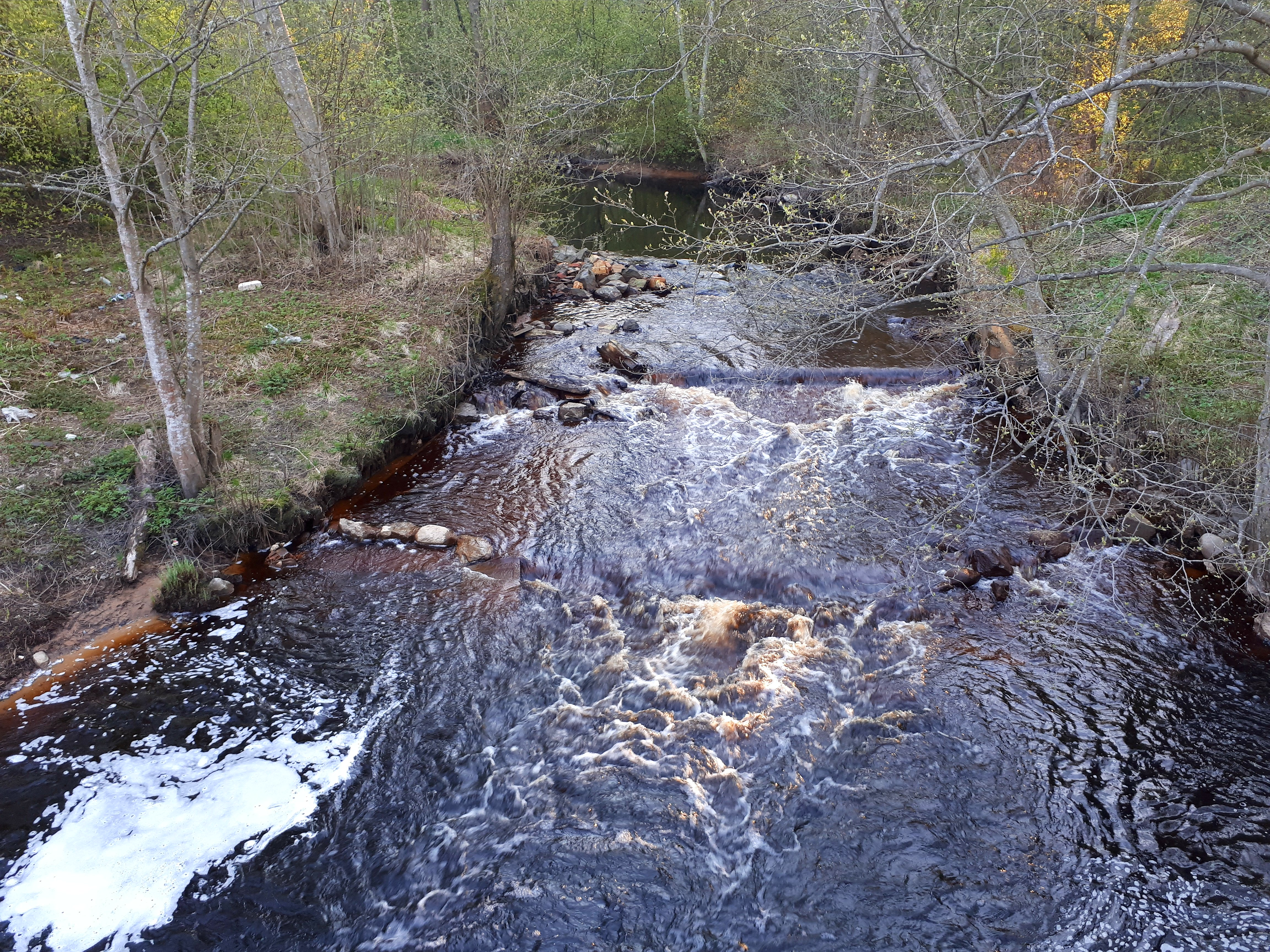 Lebyazhya River: Stepanian Street, Lebyazhye, Lomonosovsky District, Leningrad Region